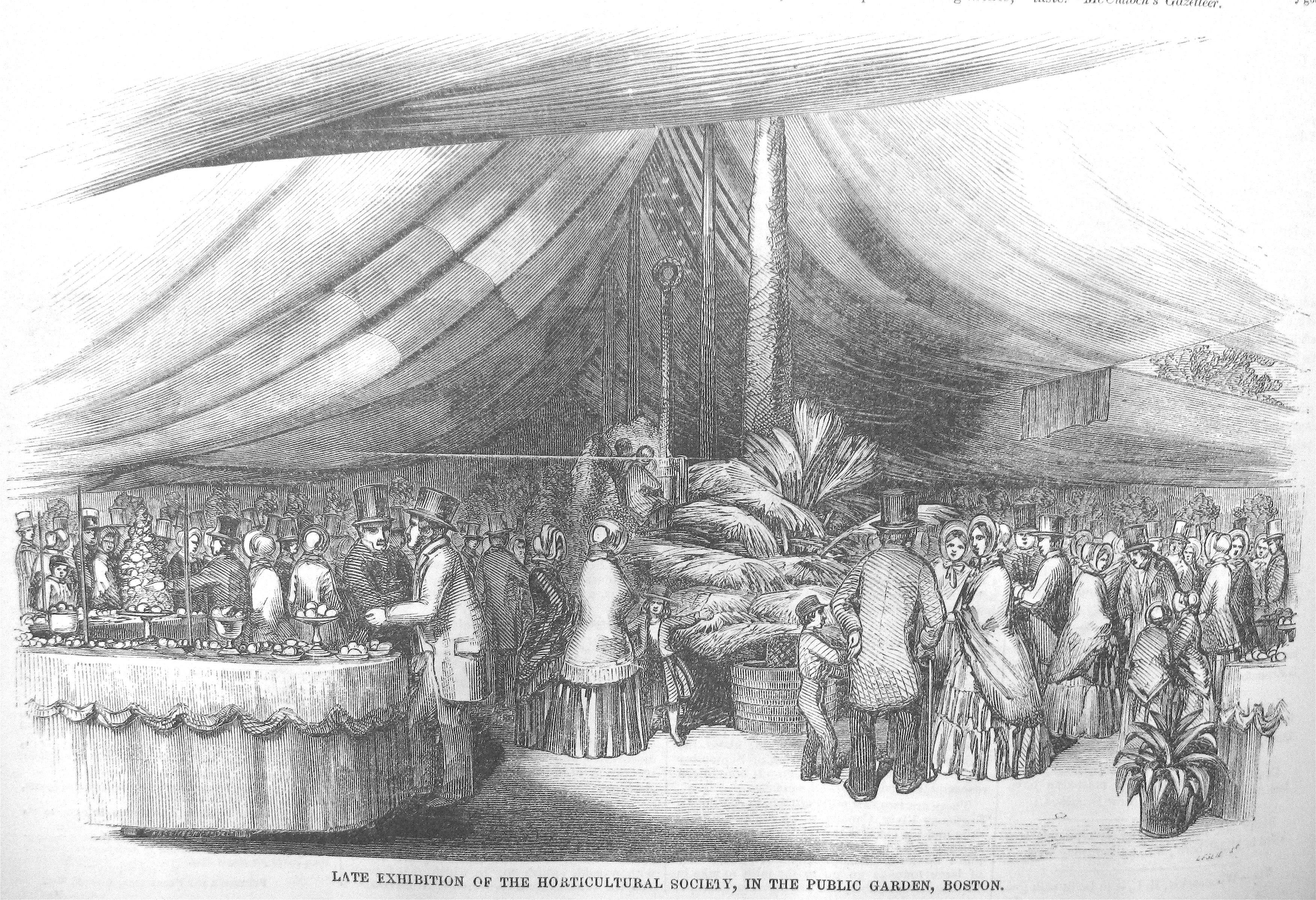 Horticultural Society exhibit, Boston Common, 1850s